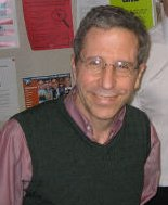 Eric Maskin at the Institute for Mathematical Behavioral Sciences' conference on the Evolution of Norms at the University of California, Irvine.